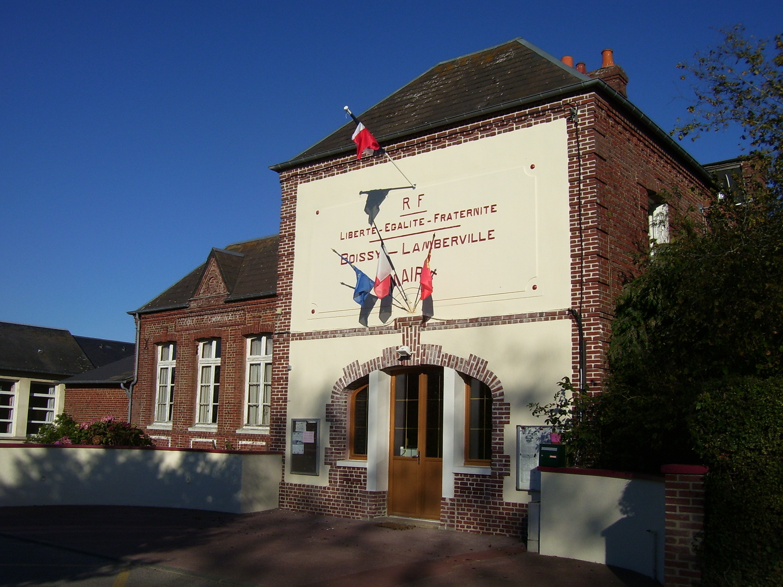 Town hall and former school of Boissy-Lamberville (Eure, Haute-Normandie) in France.